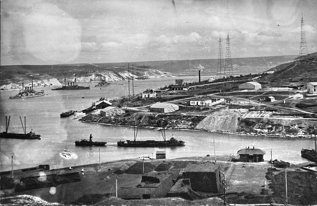 The radio masts that are installed in Kilen-Bay in 1910. Its signal reached Paris, Cairo, Bucharest.